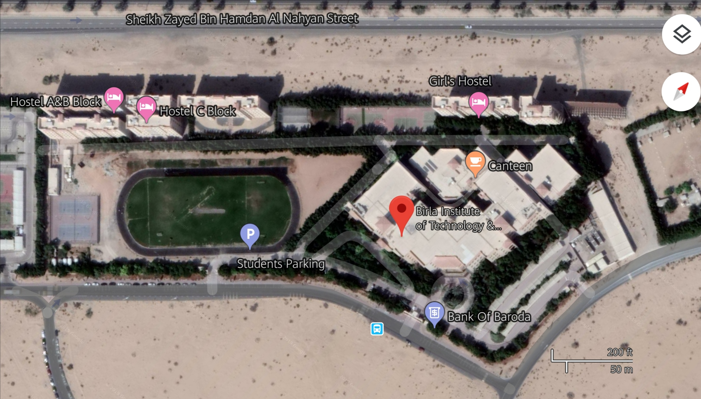 Satellite view of BITS campus